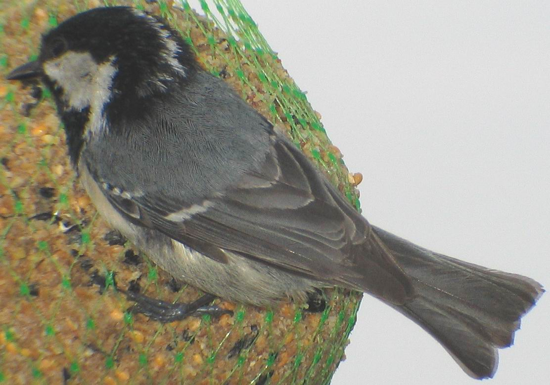 A photo of a Coal Tit (Periparus ater). Taken by me in Northern Germany. GFDL